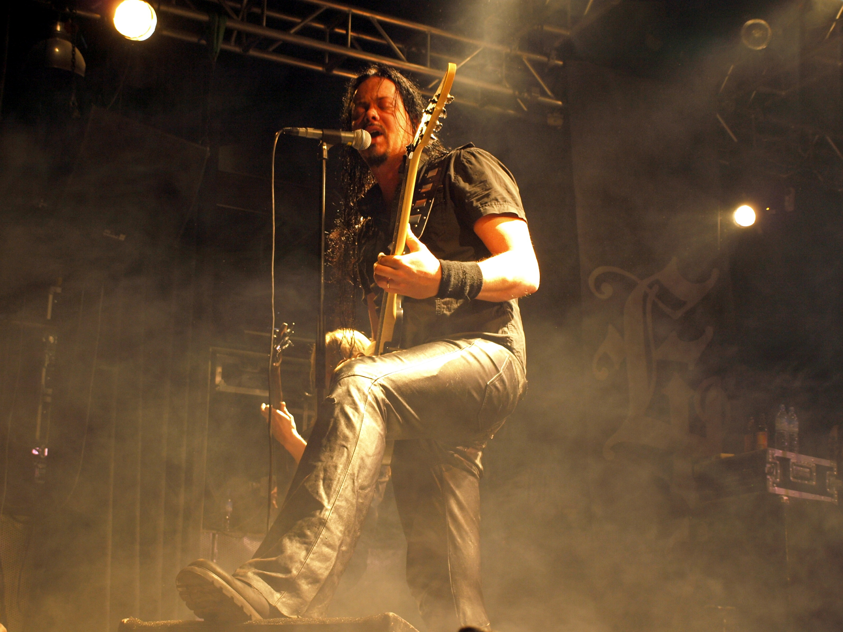 Swedish progressive metal band Evergrey live at Nosturi, Helsinki